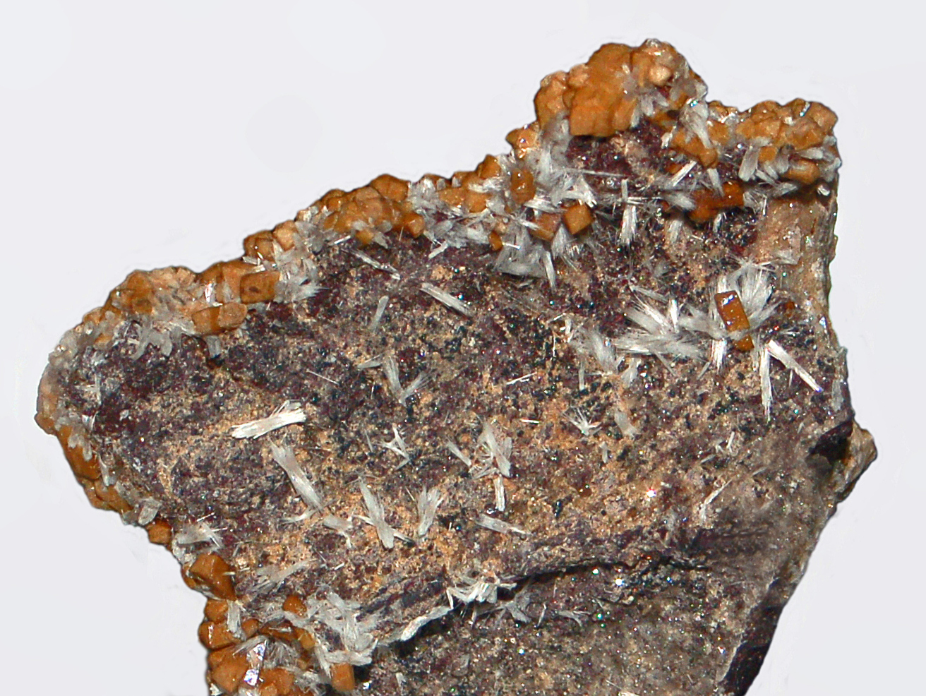 Bultfonteinite fron N’Chwaning mine, South Africa